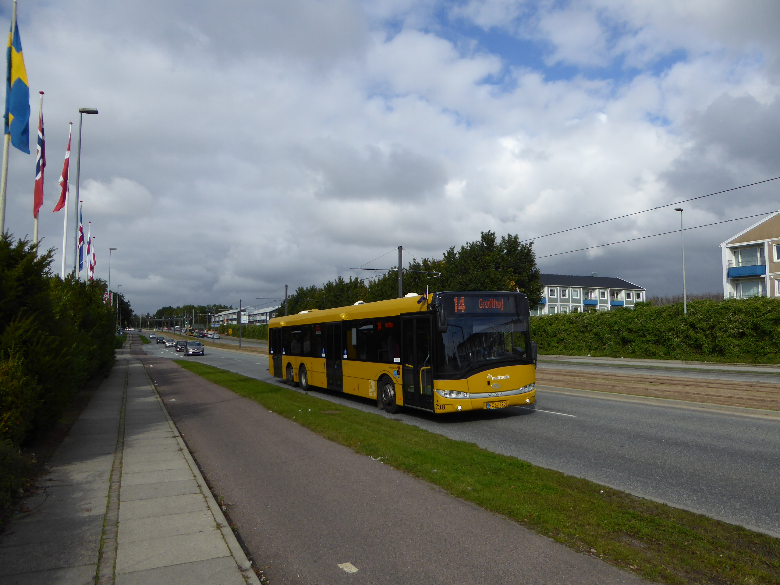 Midttrafik bus line 14 on Randersvej in Aarhus in Denmark.